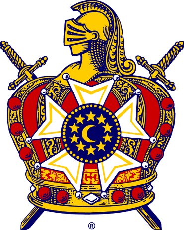 Logo of freemasonry-affiliated organization DeMolay International